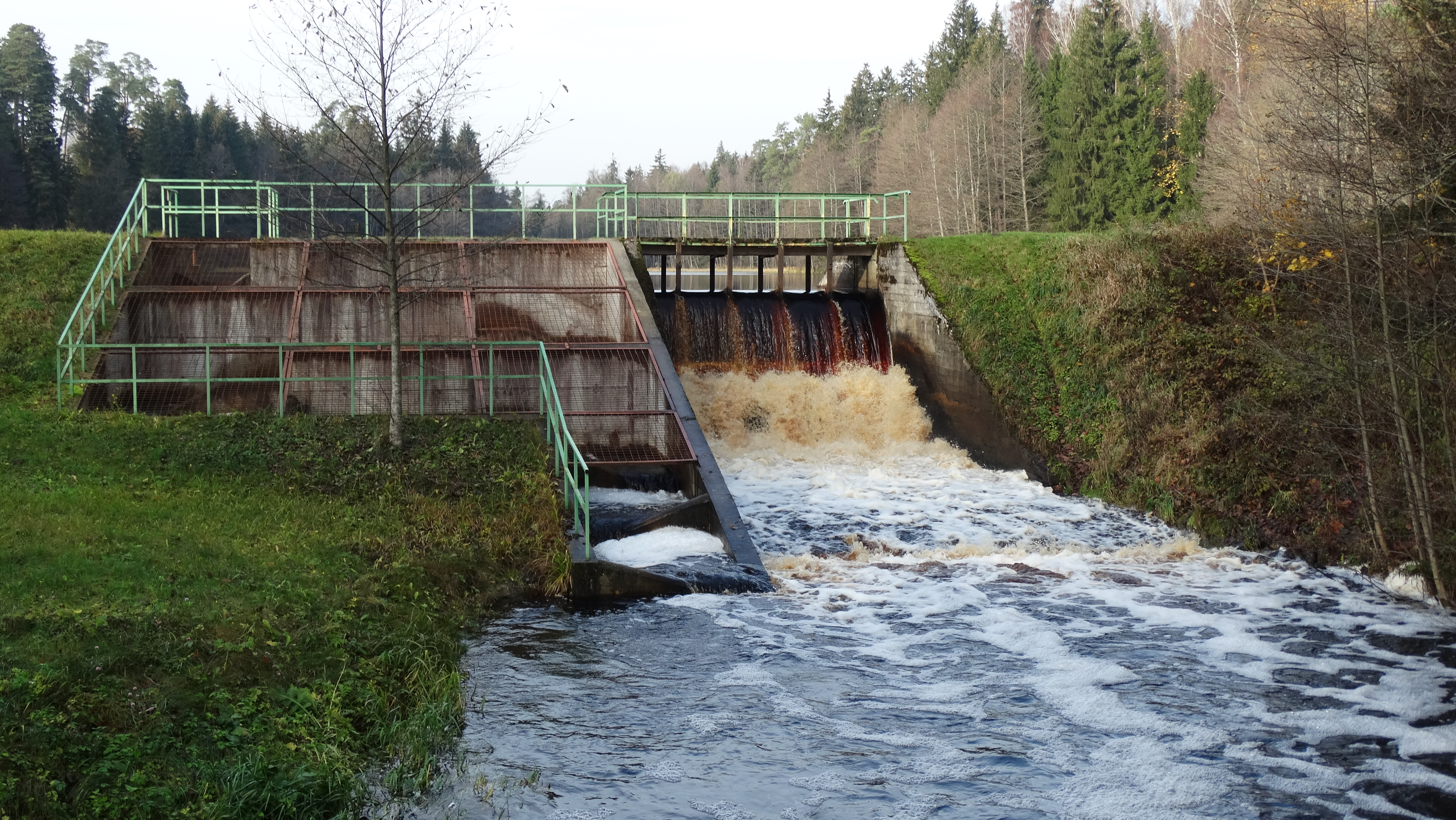 Gulbinai pond, Viešvilė, Jurbarkas District, Lithuania